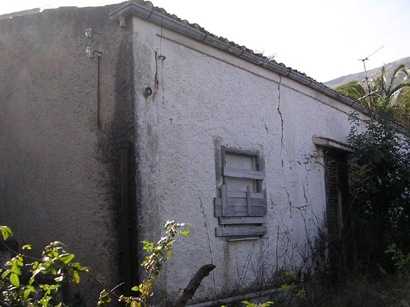 Aleister Crowley's Thelema Abbey, Cefalù, Sicily